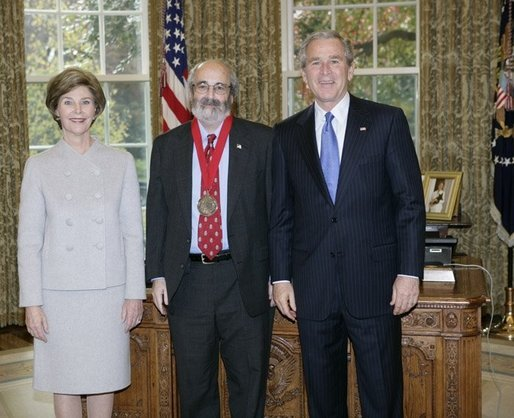 President George W. Bush and Laura Bush stand with 2005 National Humanities Medal recipient Alan Kors, historian, Thursday, November 10, 2005 in the Oval Office at the White House.